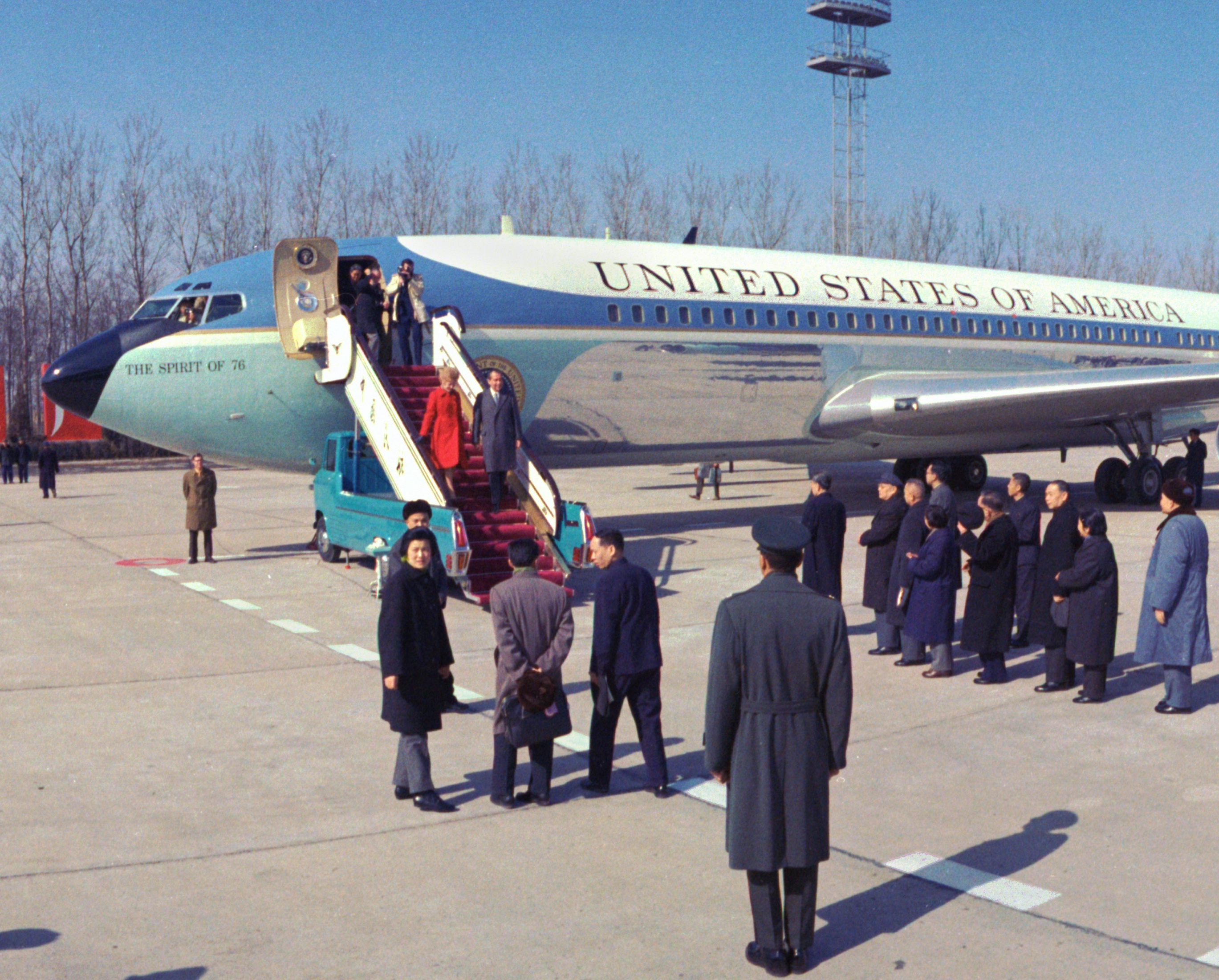 The Nixons disembark from Air Force One upon their arrival in China, 1972.